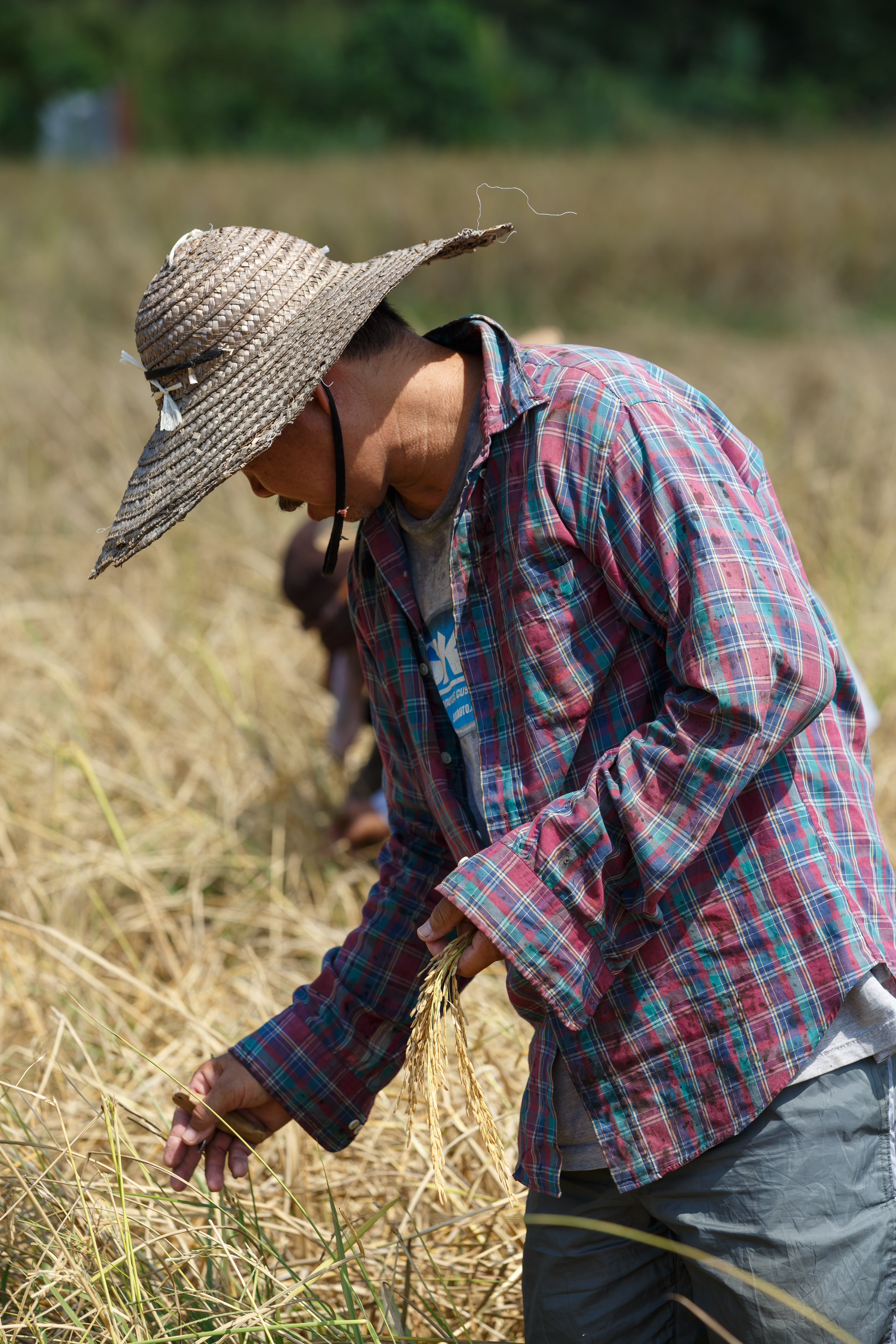 Kudat District, Sabah: A Dusun man is harvesting the family's rice field. He is wearing a Dusun farmer hat, made from rice straw.